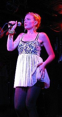 Sharon Little performing at The Saint in Asbury Park, NJ, June 2011